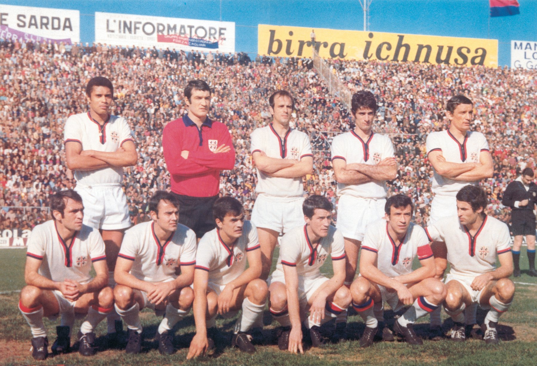 A line-up of U.S. Cagliari in the 1969–70 season, posing inside the Amsicora Stadium in Cagliari (Italy). From left to right, standing: Claudio Olinto de Carvalho "Nené", E. Albertosi, C. Niccolai, A. Domenghini, L. Riva; crouched: M. Martiradonna, M. Brugnera, S. Gori, G. Zignoli, P. Cera (captain), R. Greatti.